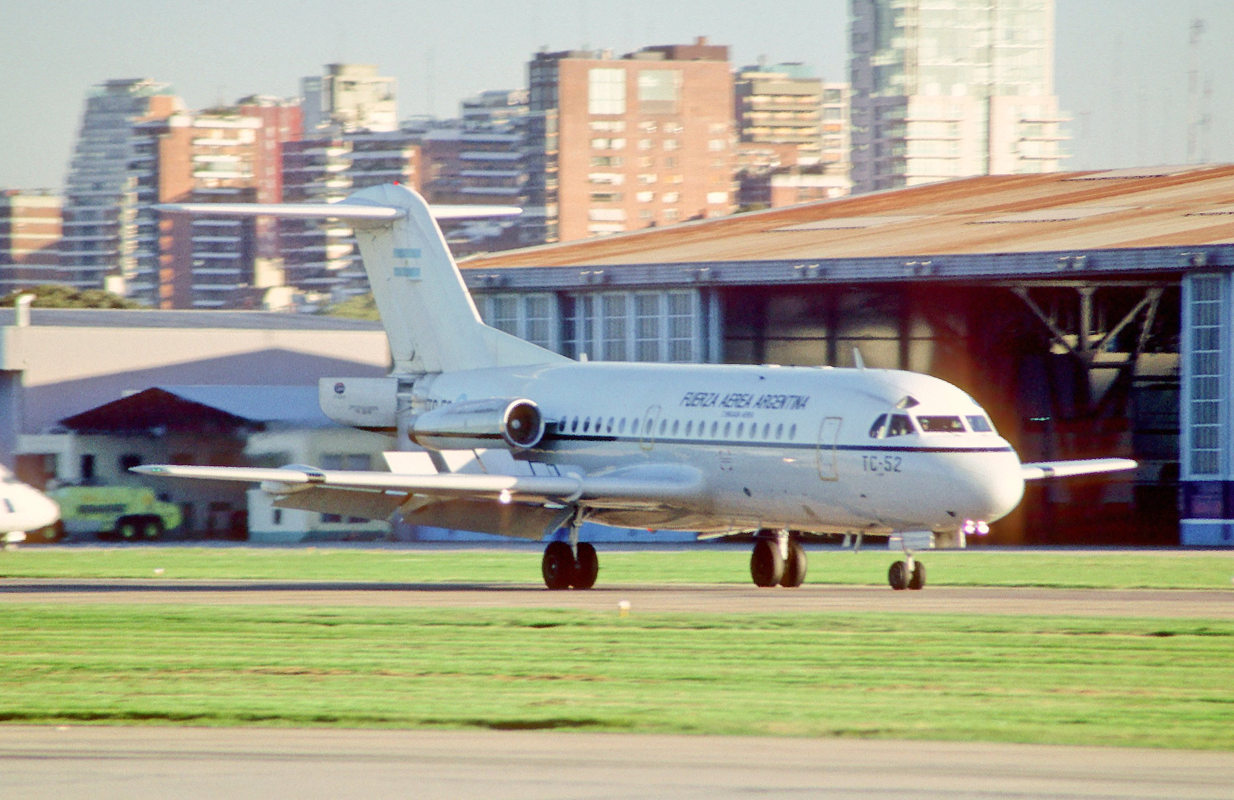 319bx - Fuerza Aérea Argentina Fokker F28 Fellowship 1000C; TC-52@AEP;24.09.2004